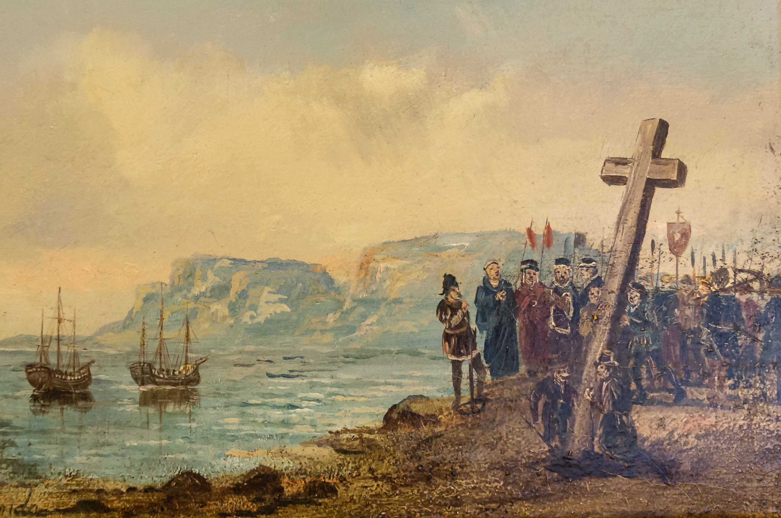 The planting of cross by Bartholomew Dias in 1488